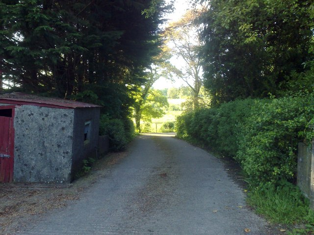 Laneway in Aughey Townland A rural private laneway leading to a remote farmhouse on Inishmore - in the townland of Aughey.